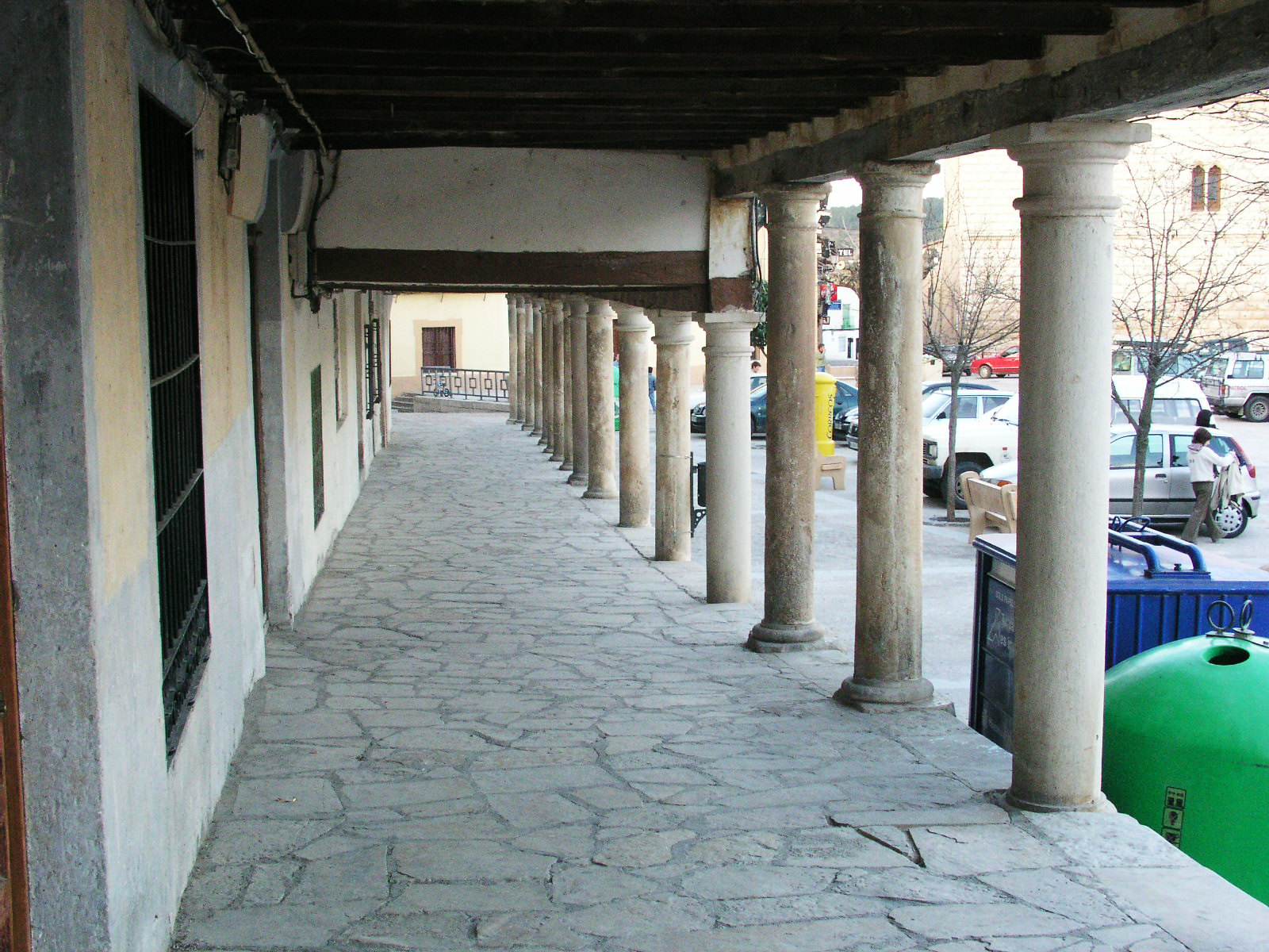 Cogolludo, provincia de Guadalajara, España. Plaza Mayor, columns. The photo was taken the 8th of April in 2004 by Håkan Svensson (Xauxa).